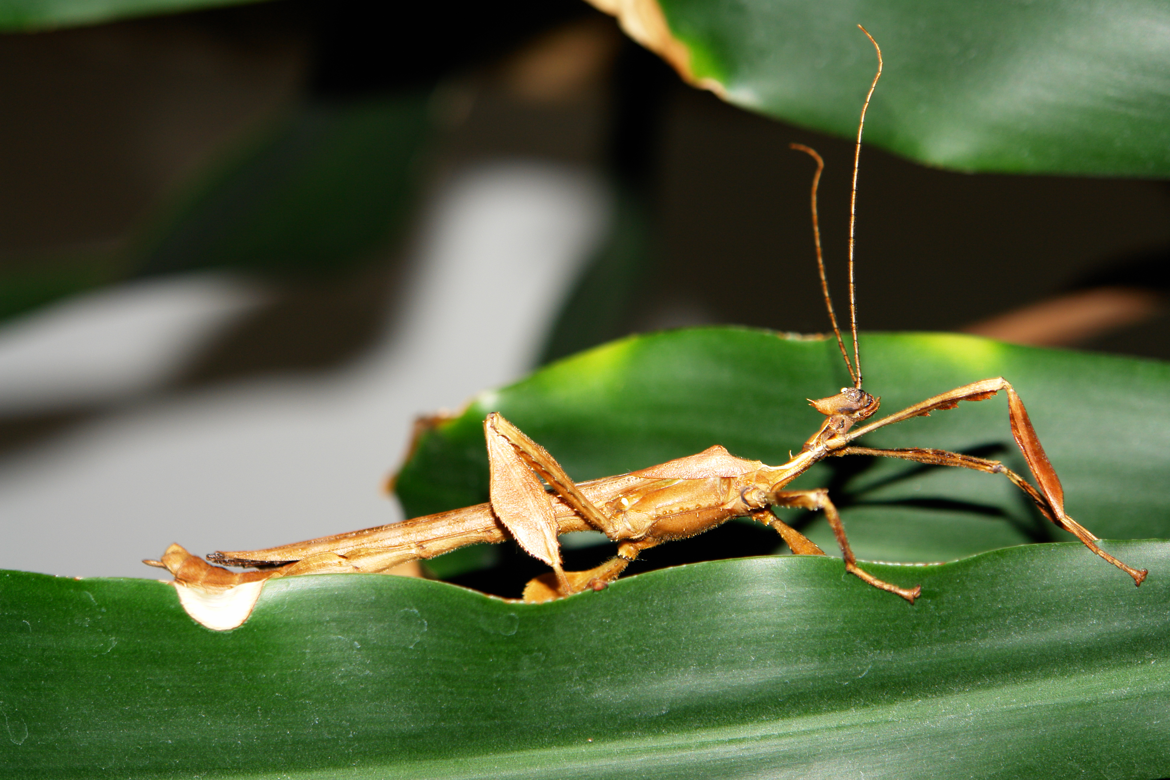 Extatosoma tiaratum, Insect, male